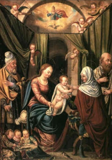 Madonna and Child with St Elisabeth Georg Wechter the elder. 41,5 x 29,5 cm (16,3 x 11,6 in)